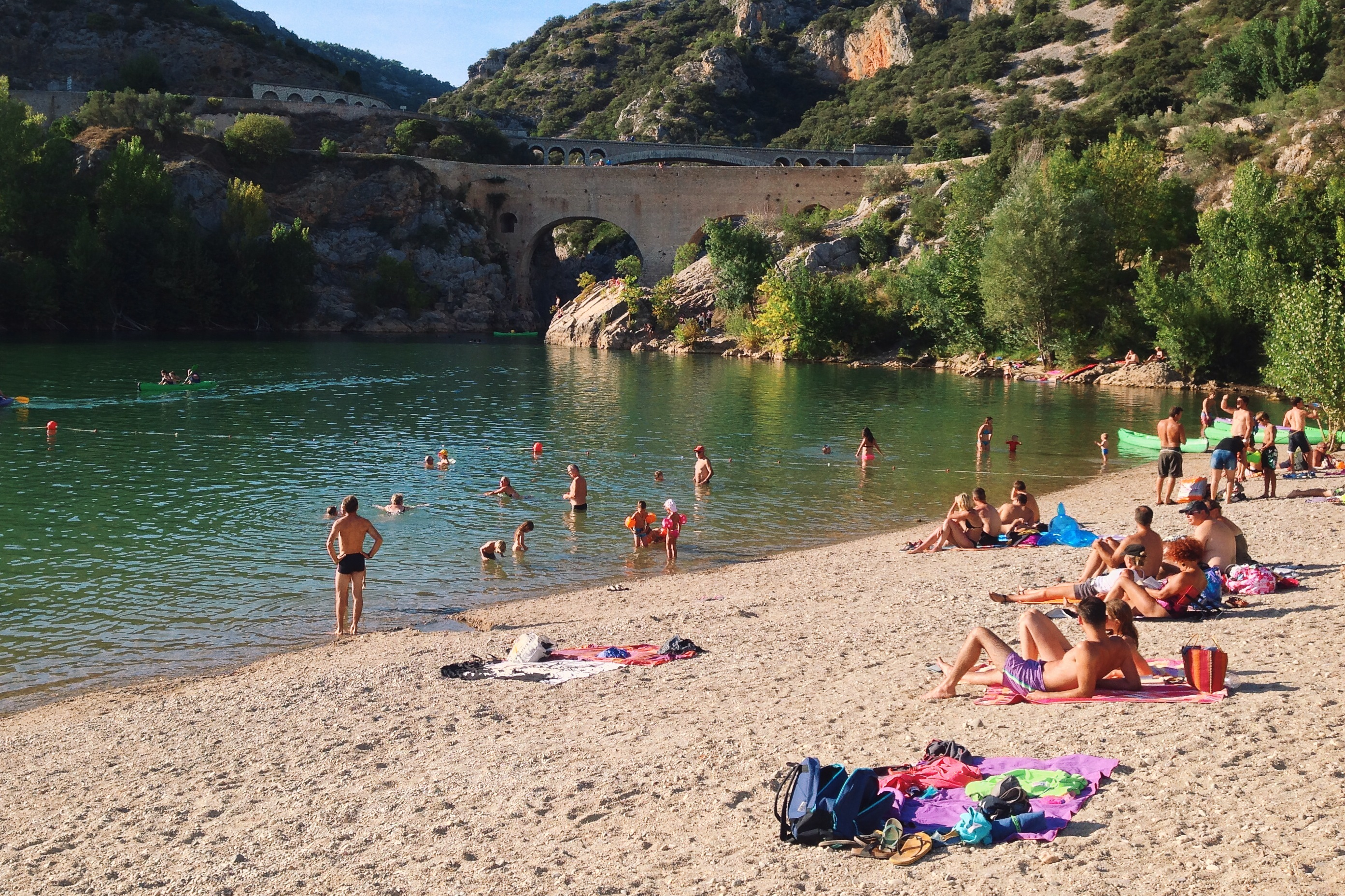 Processed with VSCOcam with k2 preset